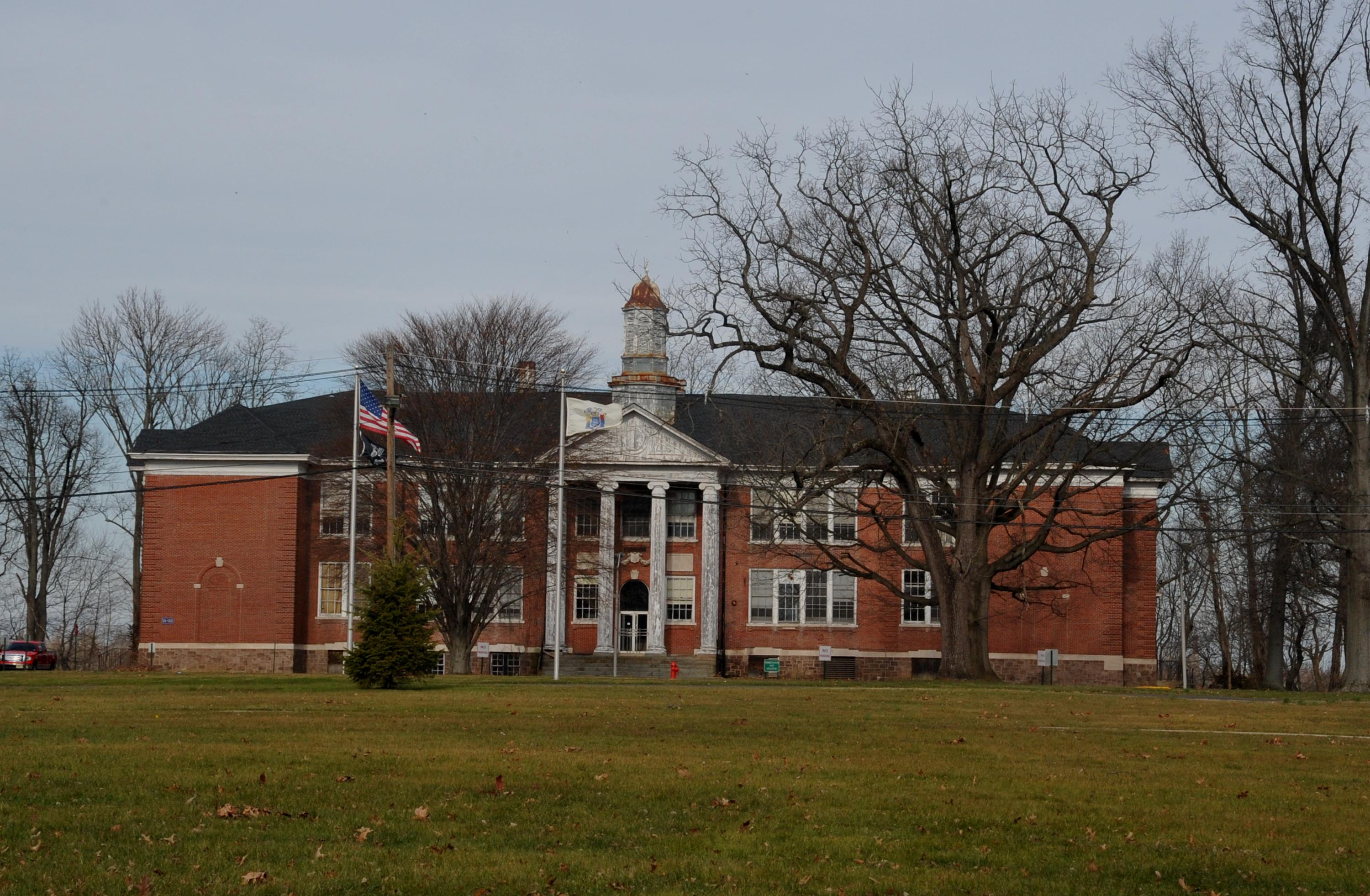 Founded in 1886 by Reverend Raymond Rice, a former slave. It taught manual training to girls and boys and got them trained for self supporting jobs. Lecturers included Albert Einstein and Paul Robeson among others. It closed in 1955 because of failure to attract white students and thus was a segregated school. It is now run by the state as correctional institute. The building pictured is the administration building.